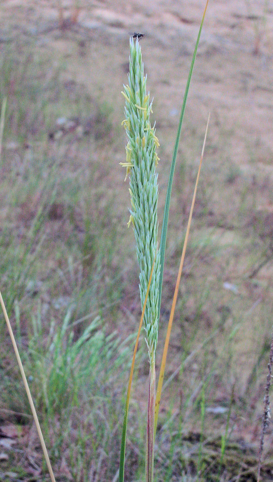 Ammophila arenaria (Helm bloeiend)